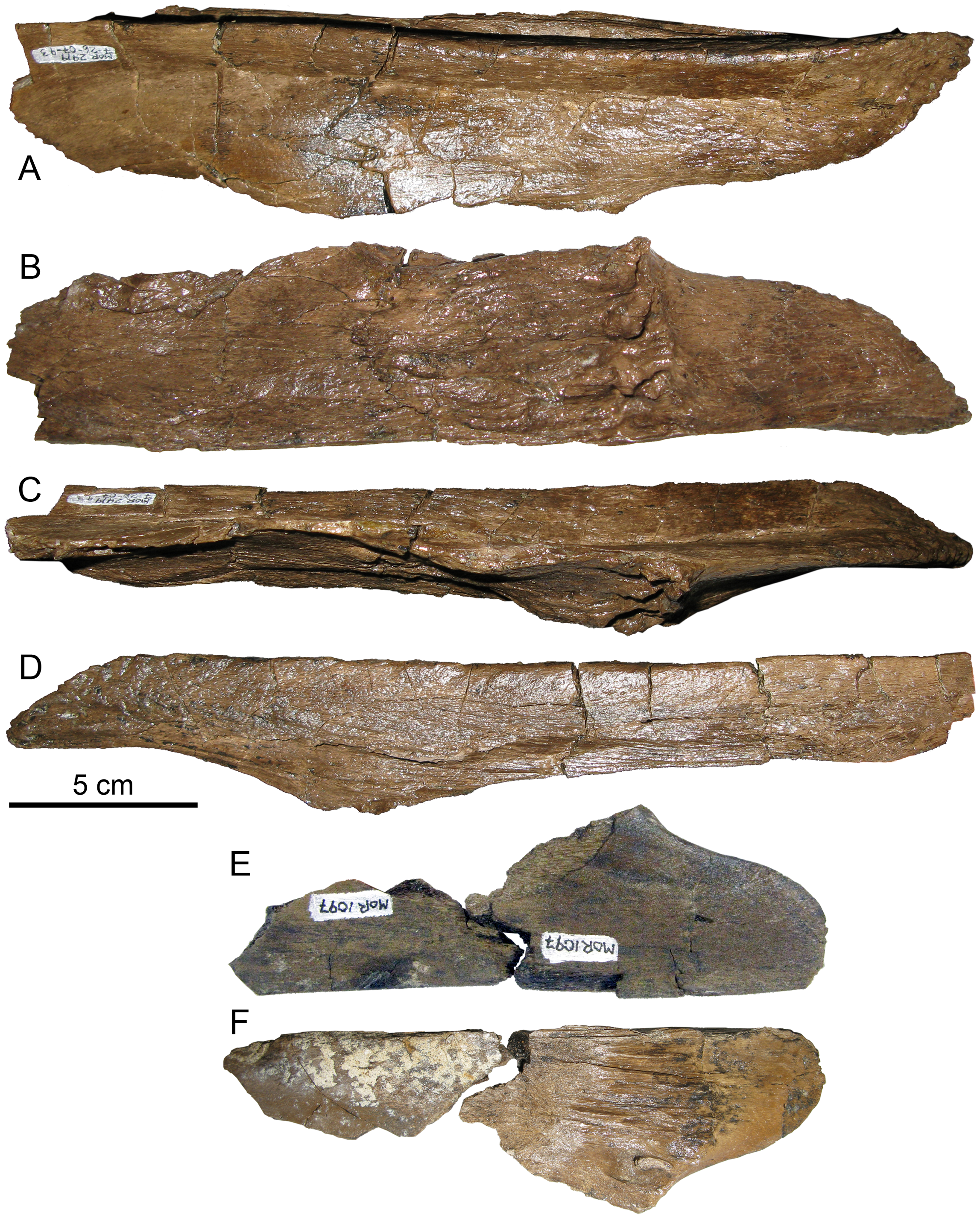 Probrachylophosaurus bergei gen. et sp. nov. nasals. (A-D) Adult, MOR 2919, posterior left nasal, crest pointing right except for (D); (A) dorsal view; (B) ventral view showing rugose nasofrontal suture; (C) lateral view; (D) medial view. (E, F) Subadult, MOR 1097, posterior right nasal; (E) dorsal view; (F) ventral view showing linearly striated nasofrontal suture.